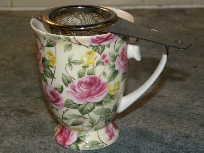 Decorated teacup and tea strainer